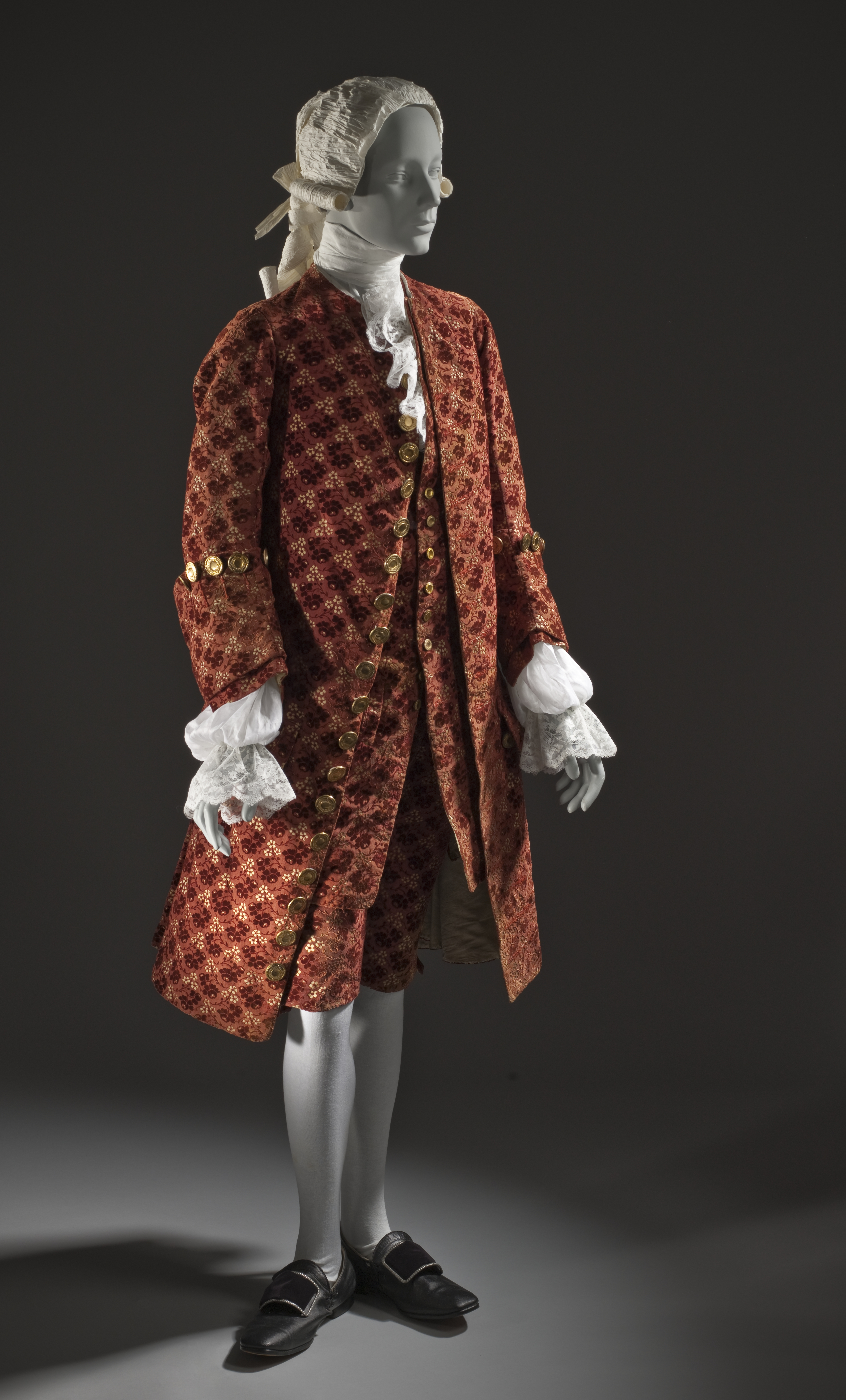 Man’s suit (coat, waistcoat and breeches), France, circa 1755. Silk cut, uncut, and voided velvet.